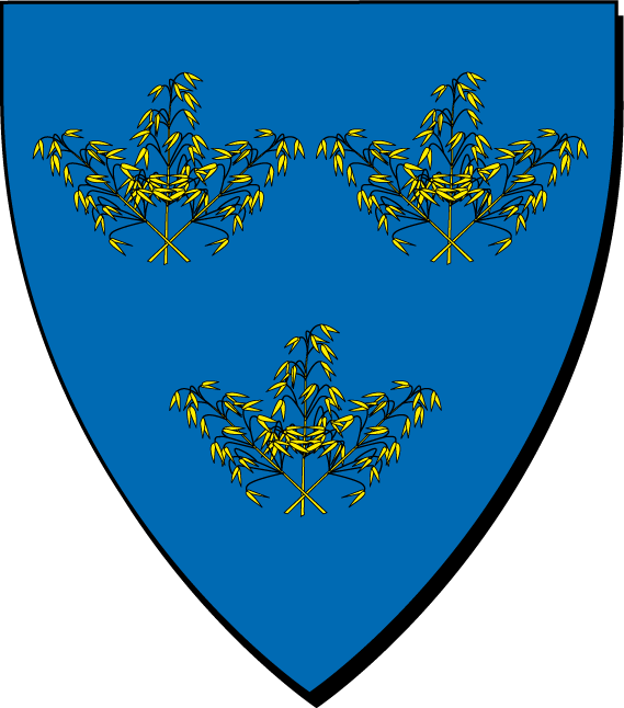 Coast of arms of Tregor (Brittany)